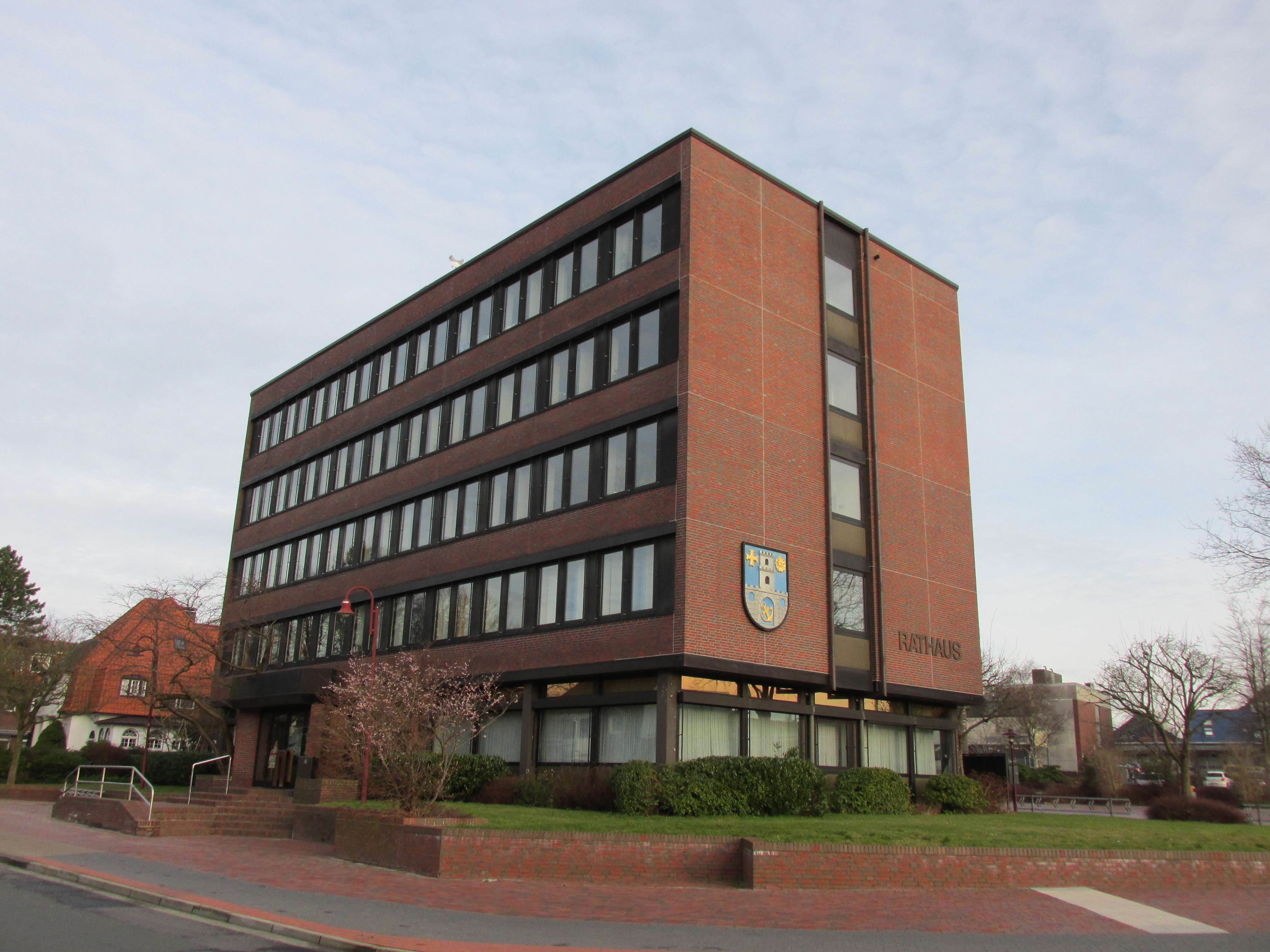 Town hall, Varel, Germany